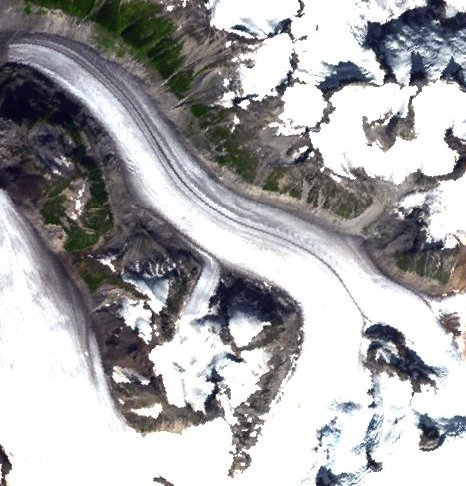 Satellite photo of the Pashleth Glacier.